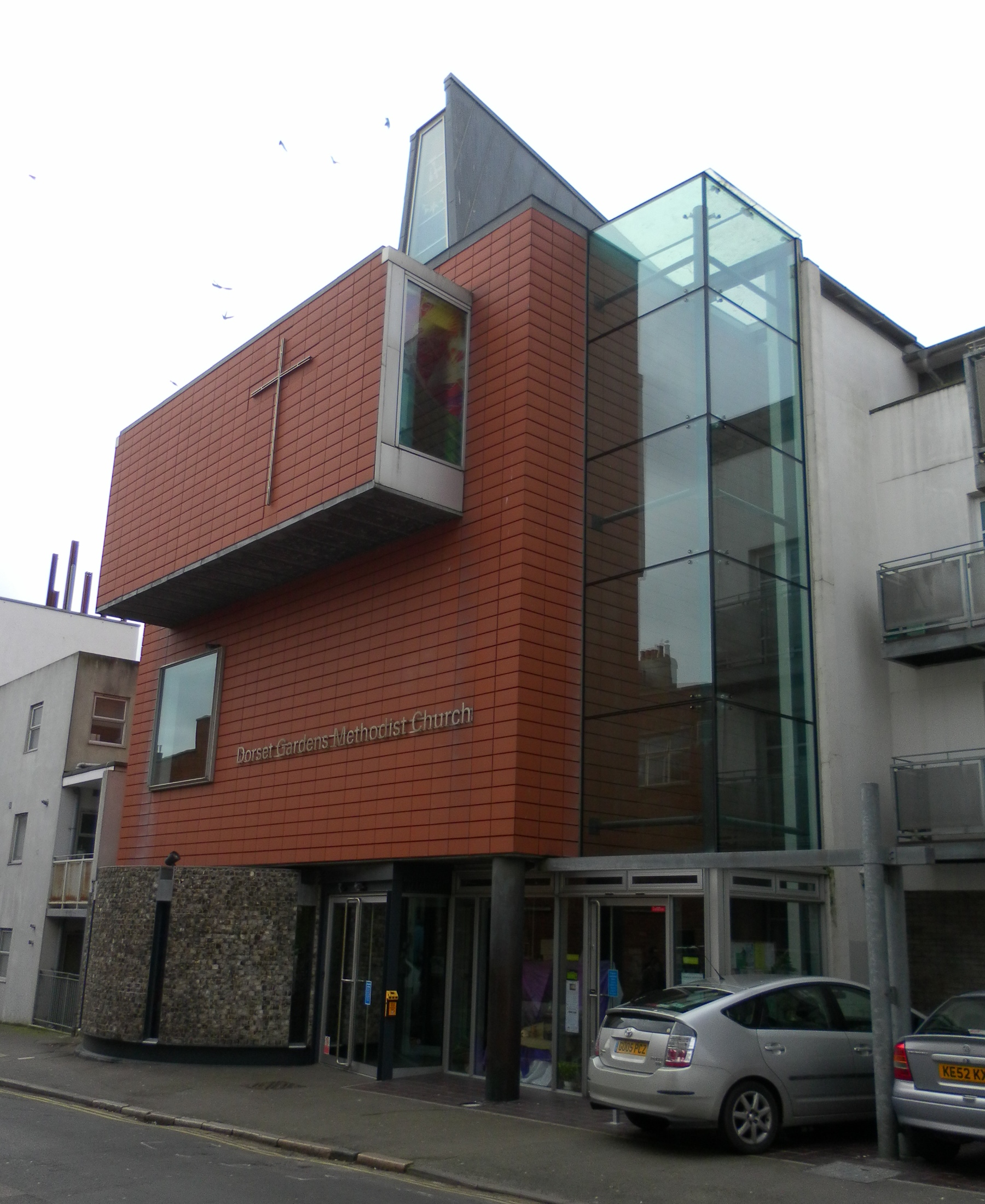 Dorset Gardens Methodist Church, Dorset Gardens, Kemptown, Brighton, City of Brighton and Hove, England. Built in 2003 to replace a 19th-century church on the same site.